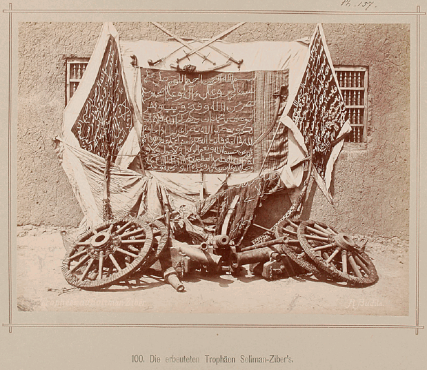 Nine swords, several flags etc. taken by General Romolo Gessi as trophy from Suleiman Zubeir.